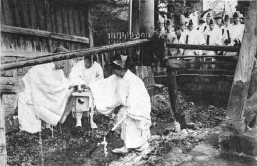 The Frog Hunting Ritual (蛙狩神事 kawazugari-shinji) performed in Suwa Taisha, Nagano Prefecture.